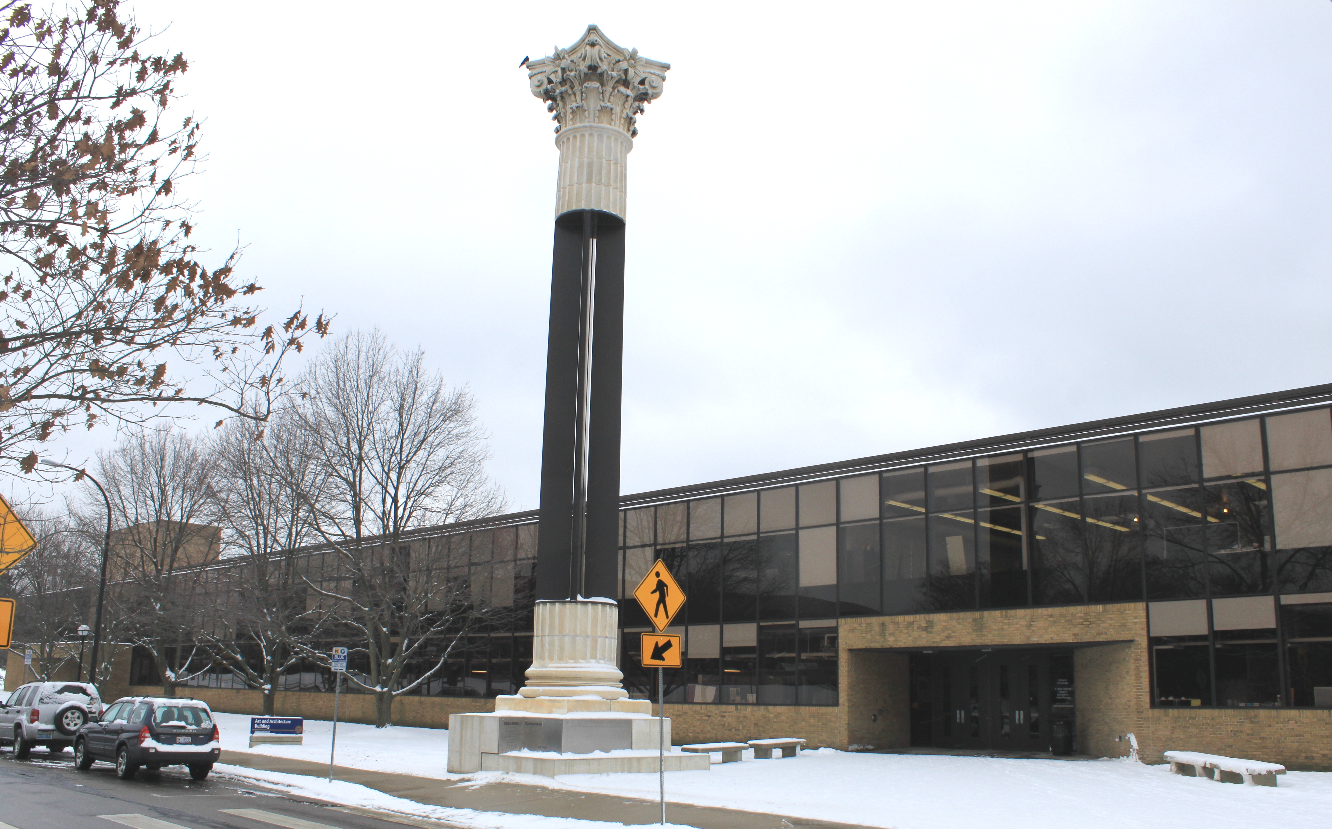 Art and Architecture Building, University of Michigan, 2000 Bonisteel Boulevard, Ann Arbor, Michigan. The column in front commemorates the College of Architecture and Urban Planning's 100th anniversary (1906-2006).